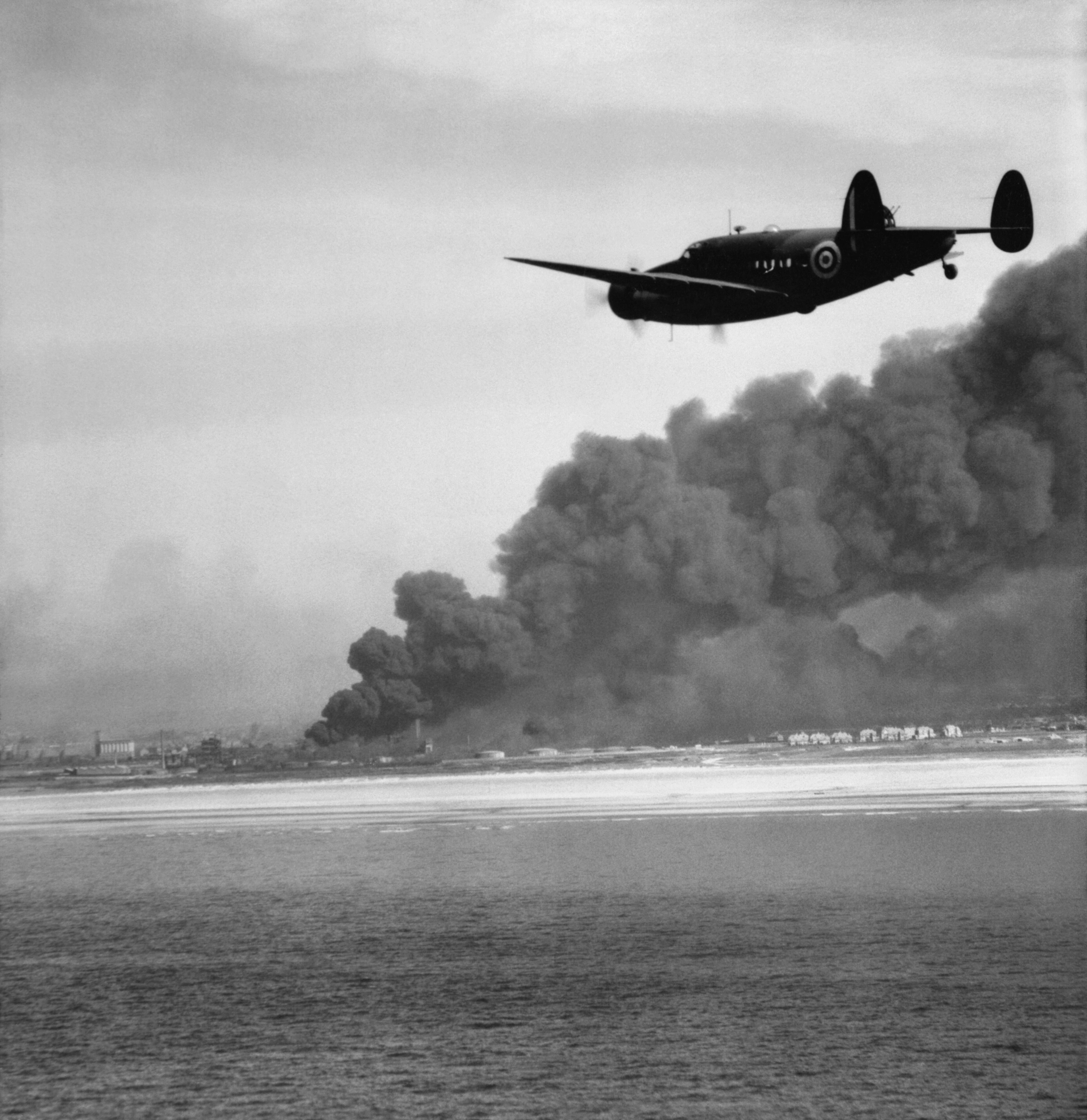 IWM caption : A Lockheed Hudson of No. 220 Squadron RAF approaches Dunkirk on a reconnaissance patrol during the evacuation of the British Expeditionary Force from the port in May-June 1940 (Operation DYNAMO).